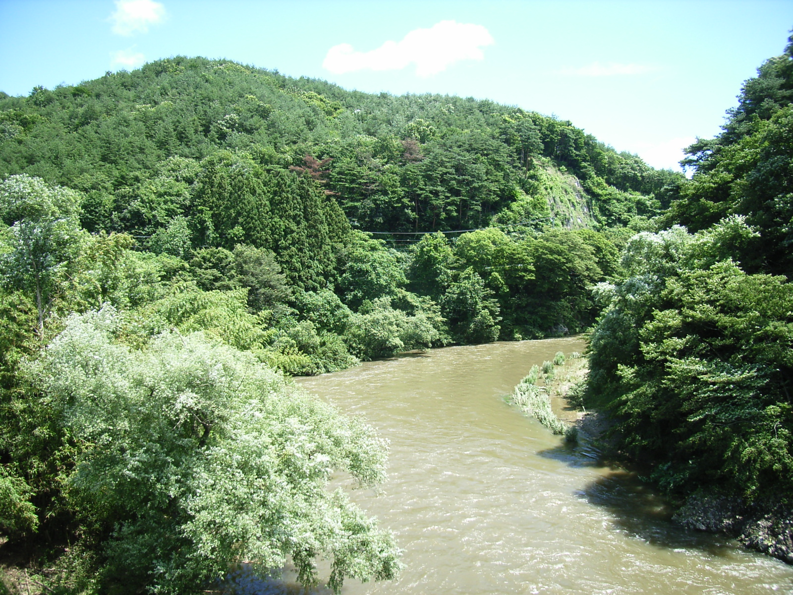 Hirose River. Sendai, Miyagi Prefecture, Japan.